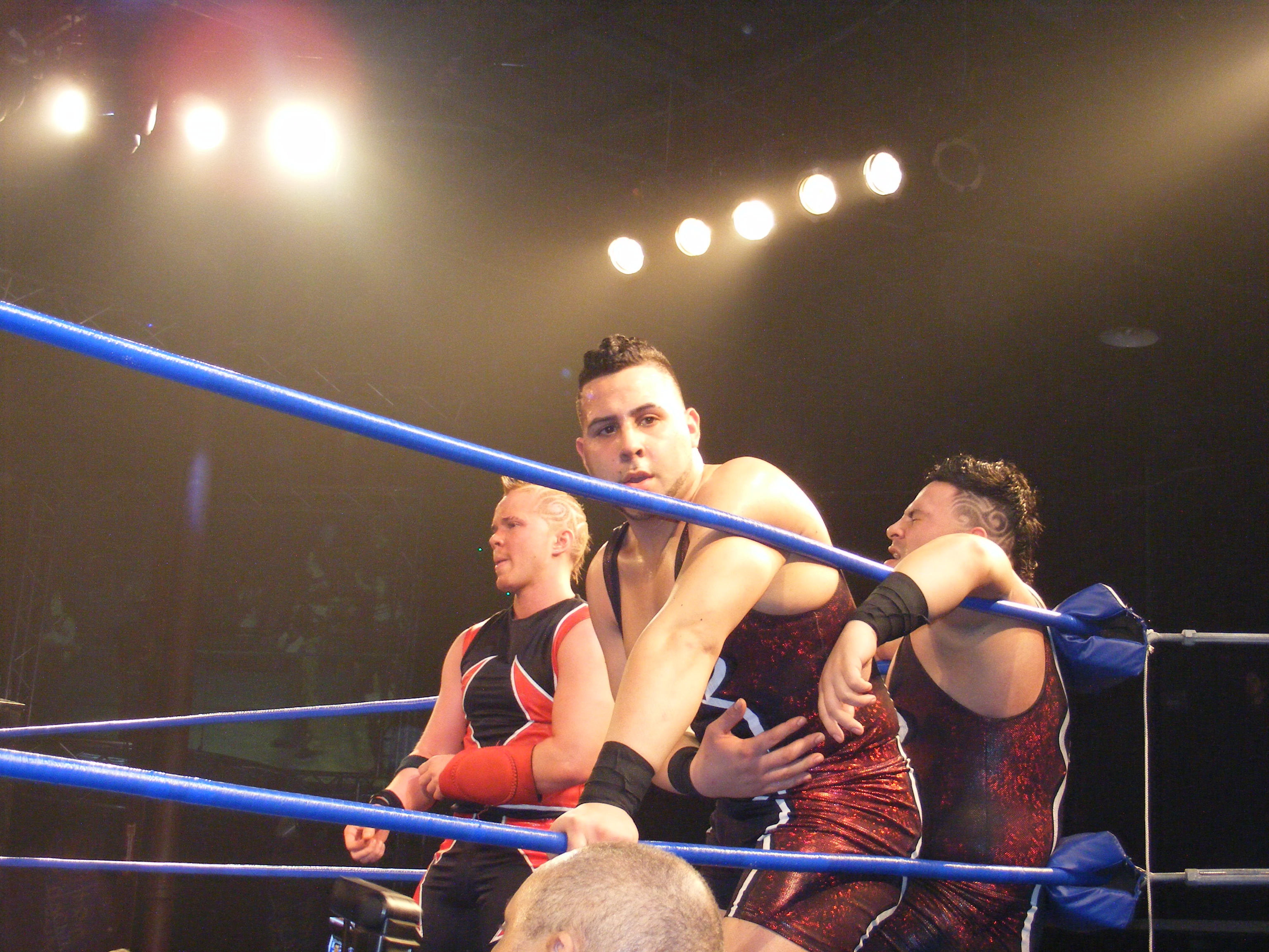 Professional wrestlers Amazing Red, Joel Maximo and Wil Maximo at Chikara King of Trios 2011.